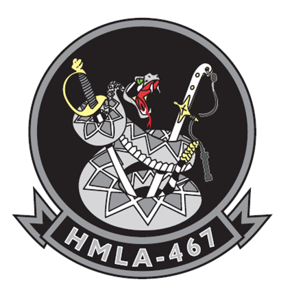 Current Insignia for HMLA-467